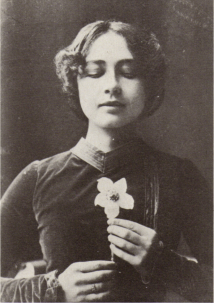 Photograph of the actress Harriet Bosse as the Lady in the première of August Strindberg's To Damascus at the Royal Dramatic Theatre in Stockholm in 1900.